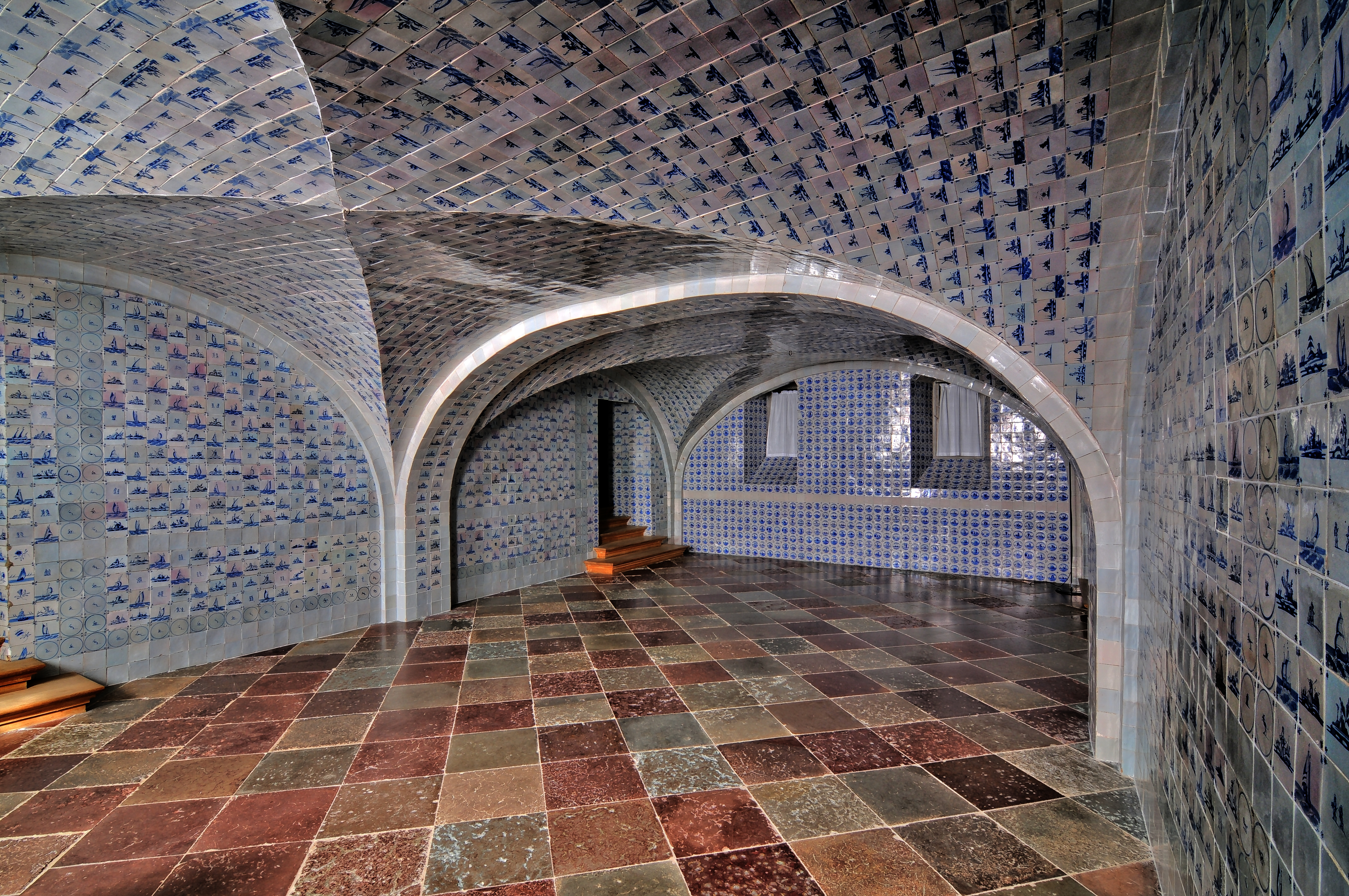 Castle Caputh in Germany; tiles hall